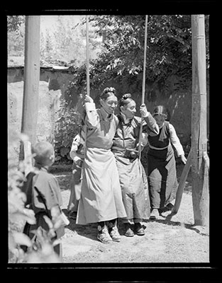 Lhalu Se, George Tsarong, Lhasa, Dekyi Lingka, Indian Mission in Lhasa